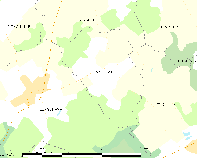 Map of French municipality Vaudéville